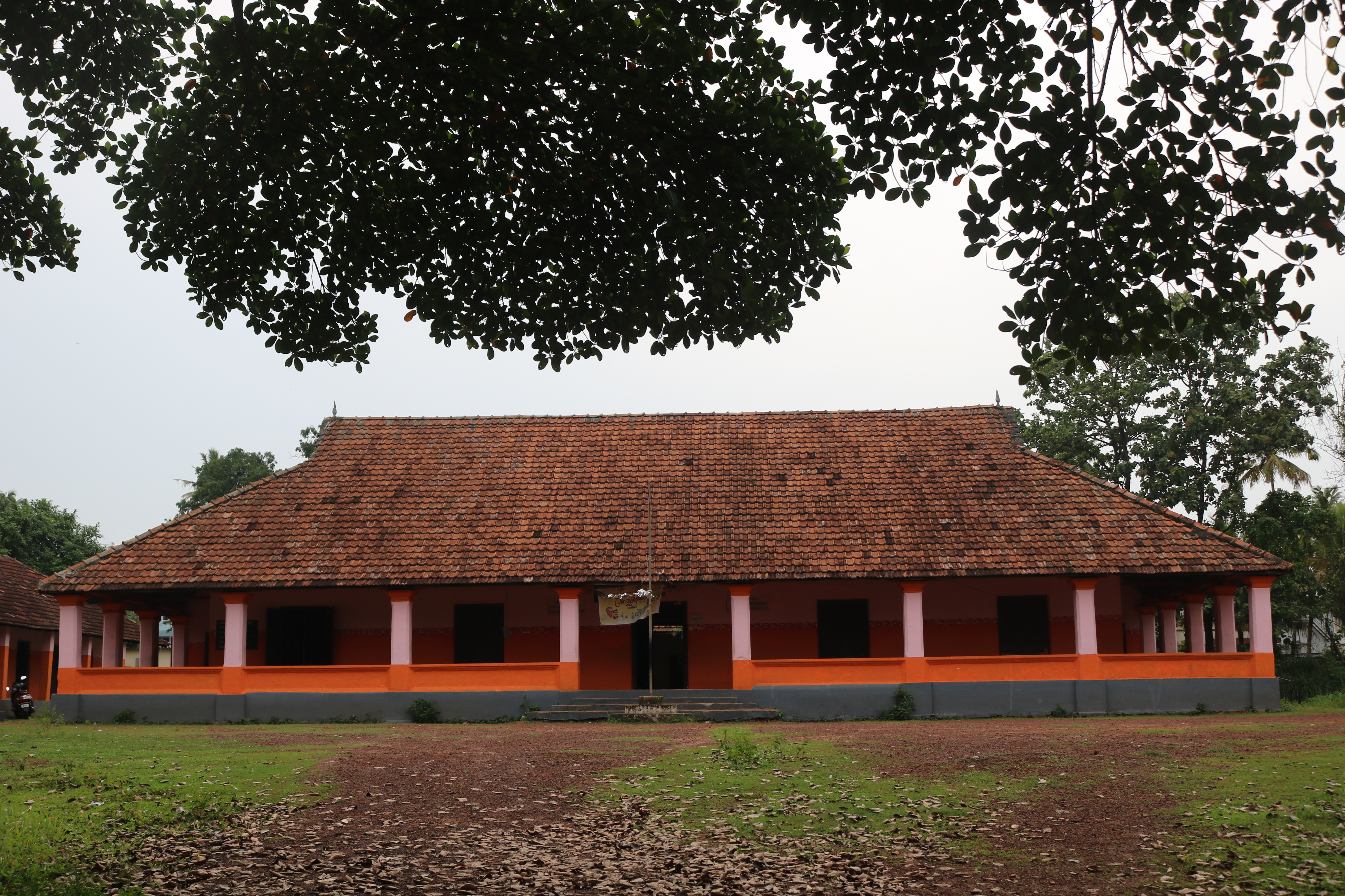 Malayalisabha NSS UPS Kollam, was the centre of Malayali memorial 1891.